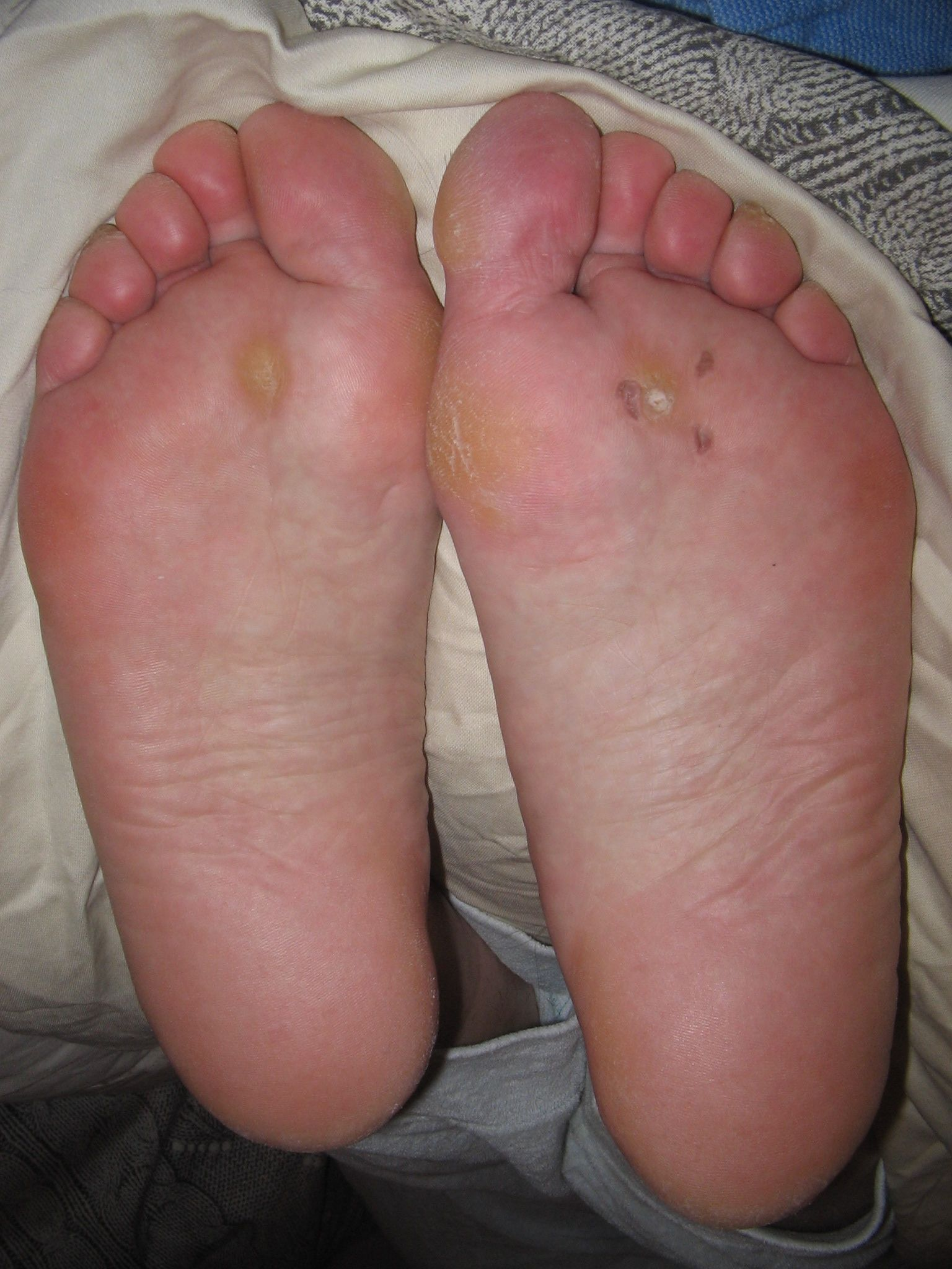 Painful scars from skin transfers after surgical removement of deepseated plantar warts. Two warts are still active, after several surgical efforts to remove them they have become extremely painful. Beside calloused skin at the border of the hallux and big toes two subungual warts developed under the nails of both fourth toes, due to clawing of the toes to releave pressure from the warts. The 41-year-old woman suffers from excruciating pain and is hardly able to walk.